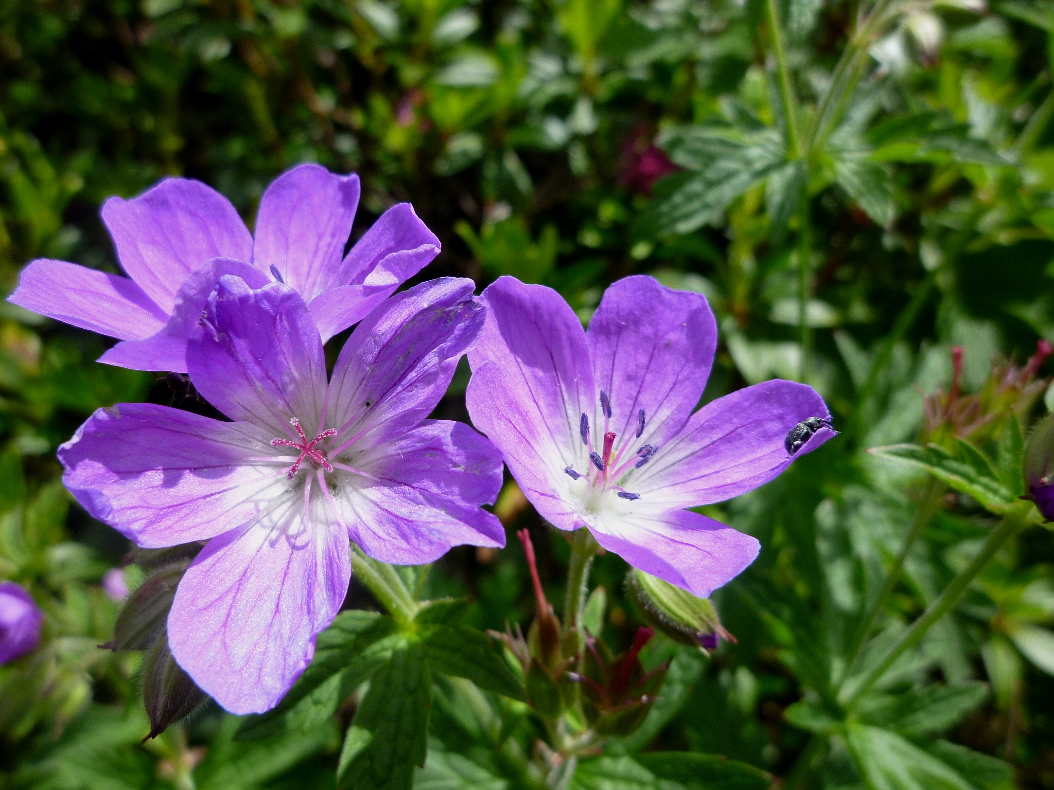 Geranium sylvaticum. In Cabdella (Pallars Jussà - Catalunya. To 2.180 m altitude